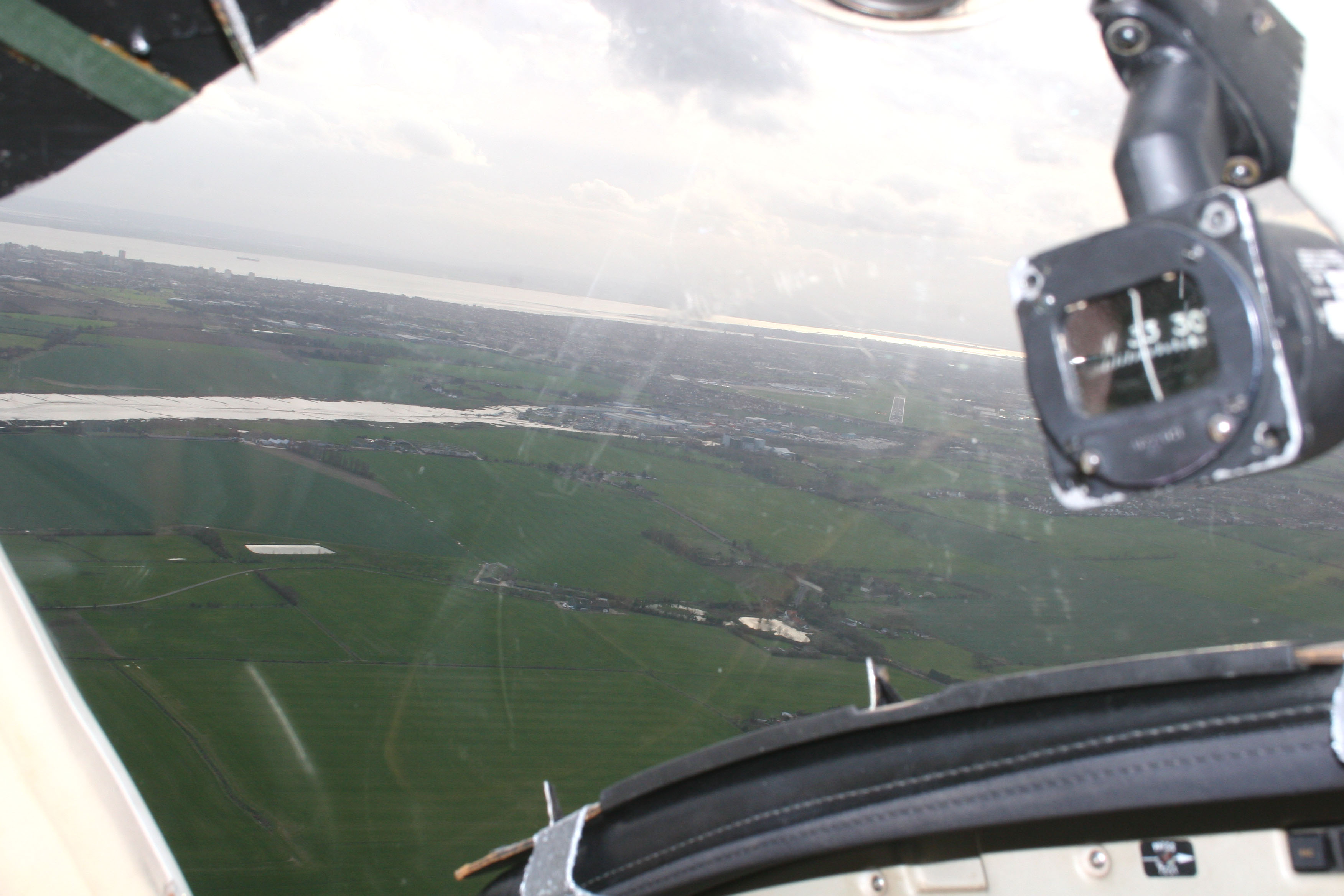 plane on approach to runway 24 at Southend Airport using River Roach as navigation aid